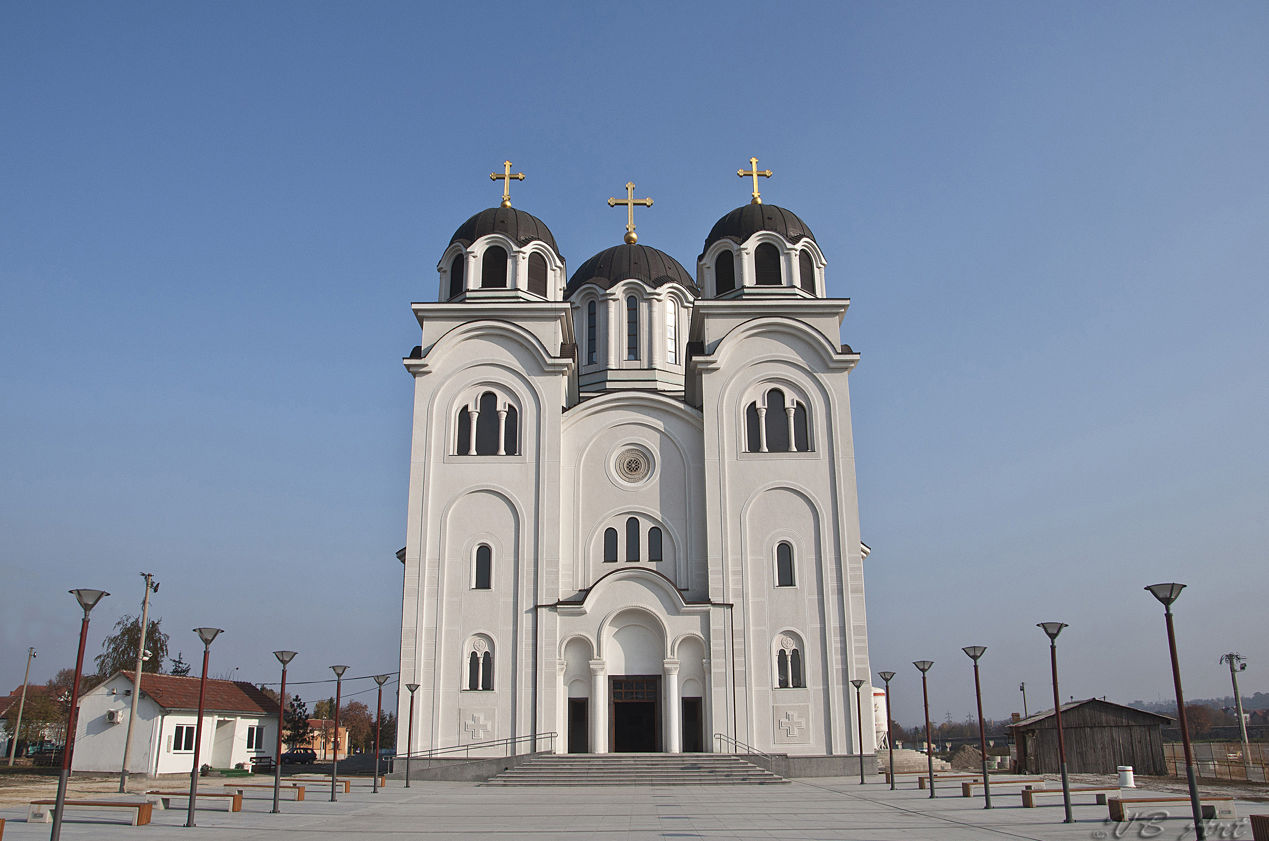 Temple of Our Lord’s Resurrection in Valjevo